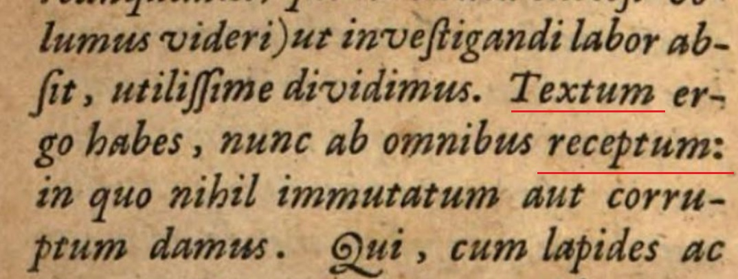 The words "this text, received by all" in the introduction to the 1633 Elzevier edition, from which the term "Textus Receptus" is derived.